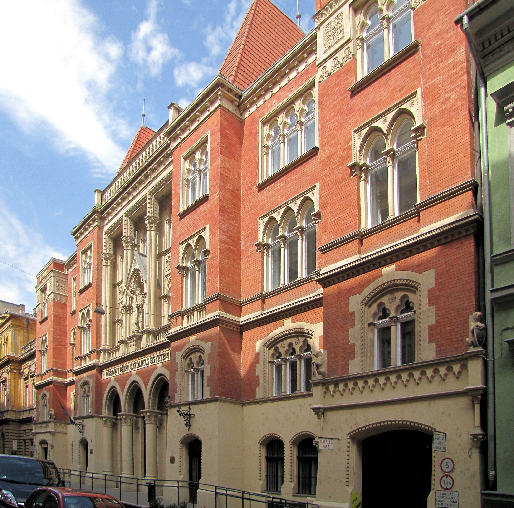 Pázmány Péter Catholic University, Faculty of Law and Political Sciences, Szentkirályi Street, Budapest.